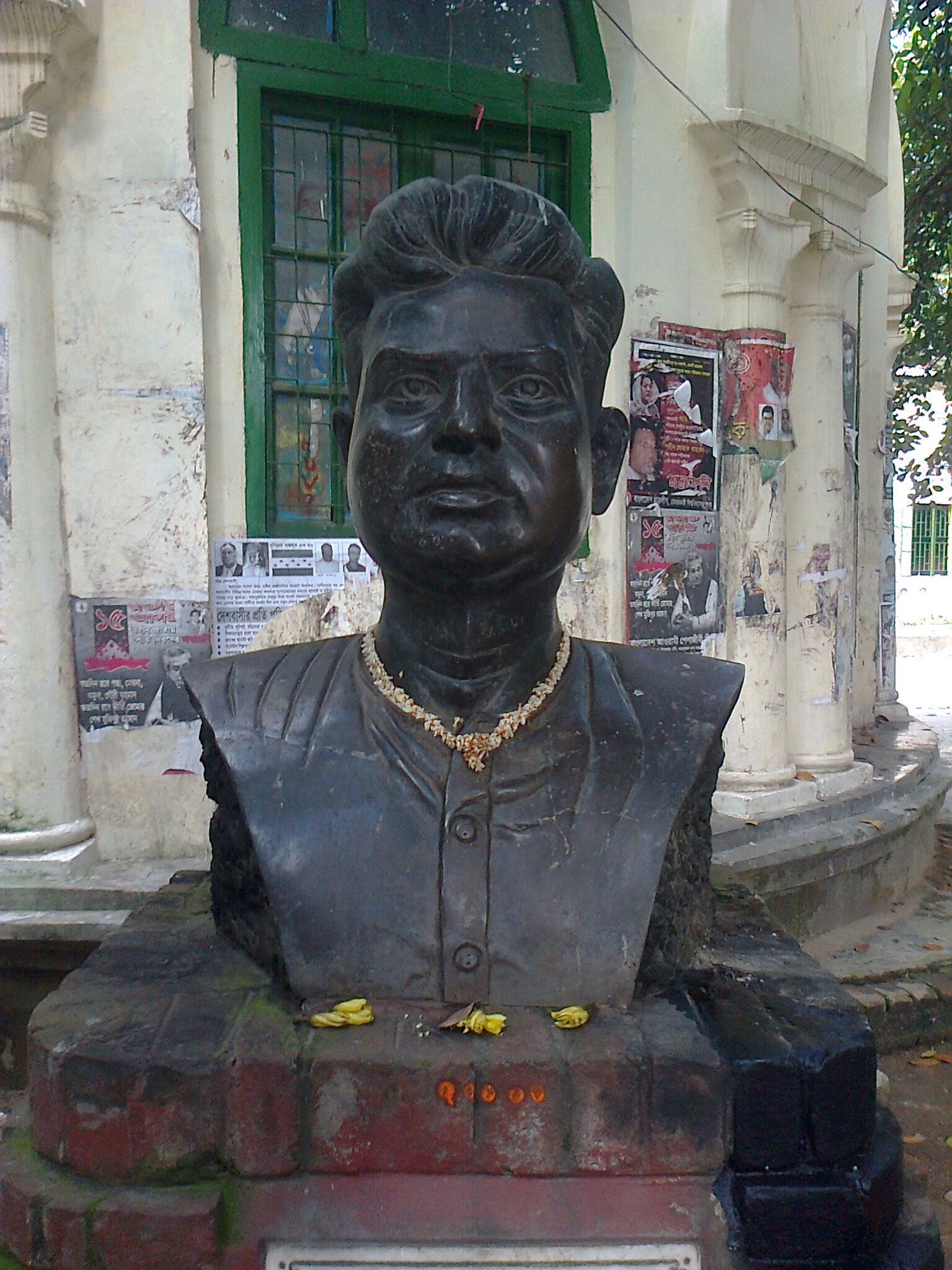 View of Madhur Canteen with sculpture of Madhu Da. Dhaka University. 2014.